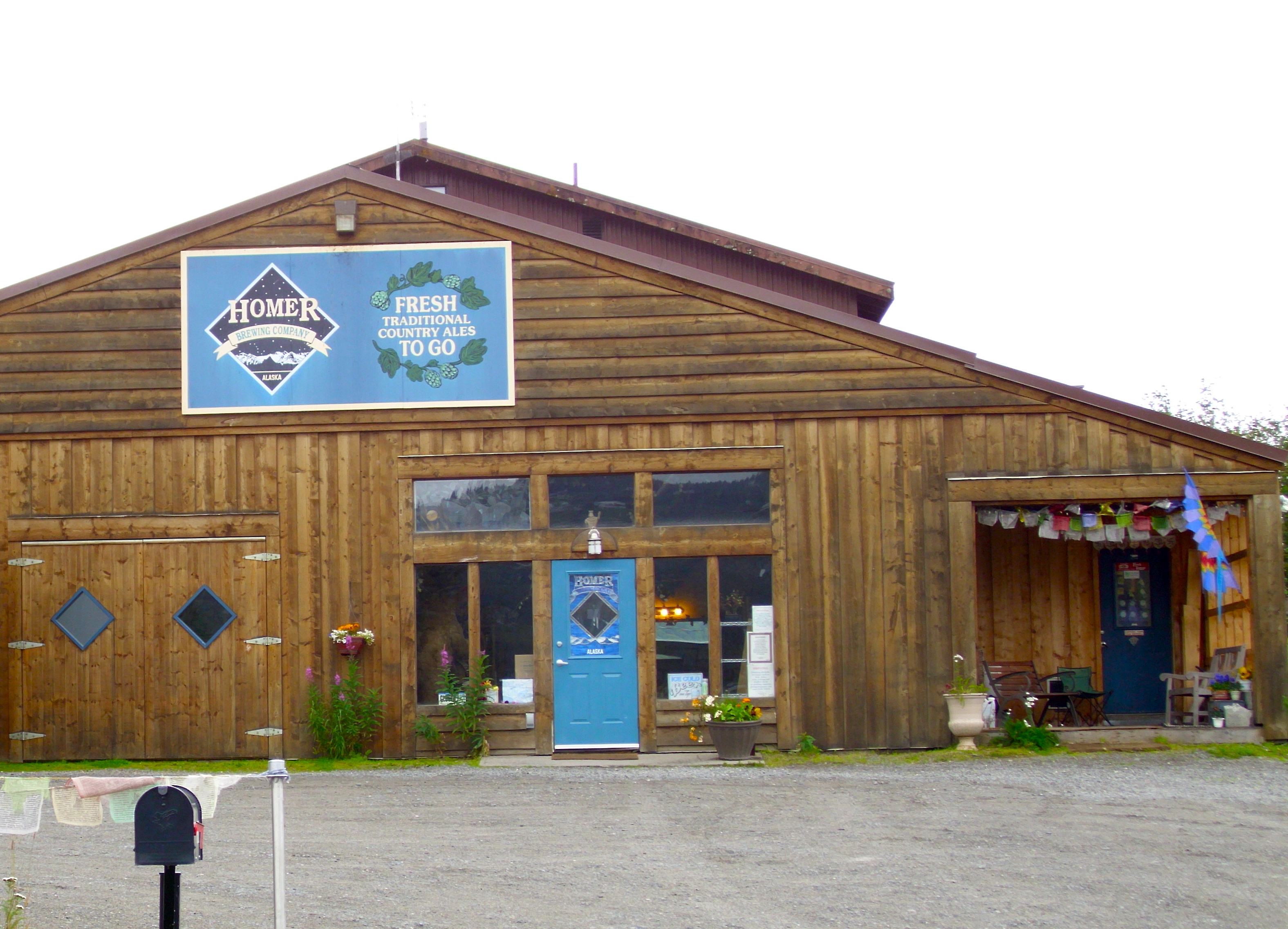 Homer Brewing Company Brewery, Lakeshore Drive, Homer, Alaska